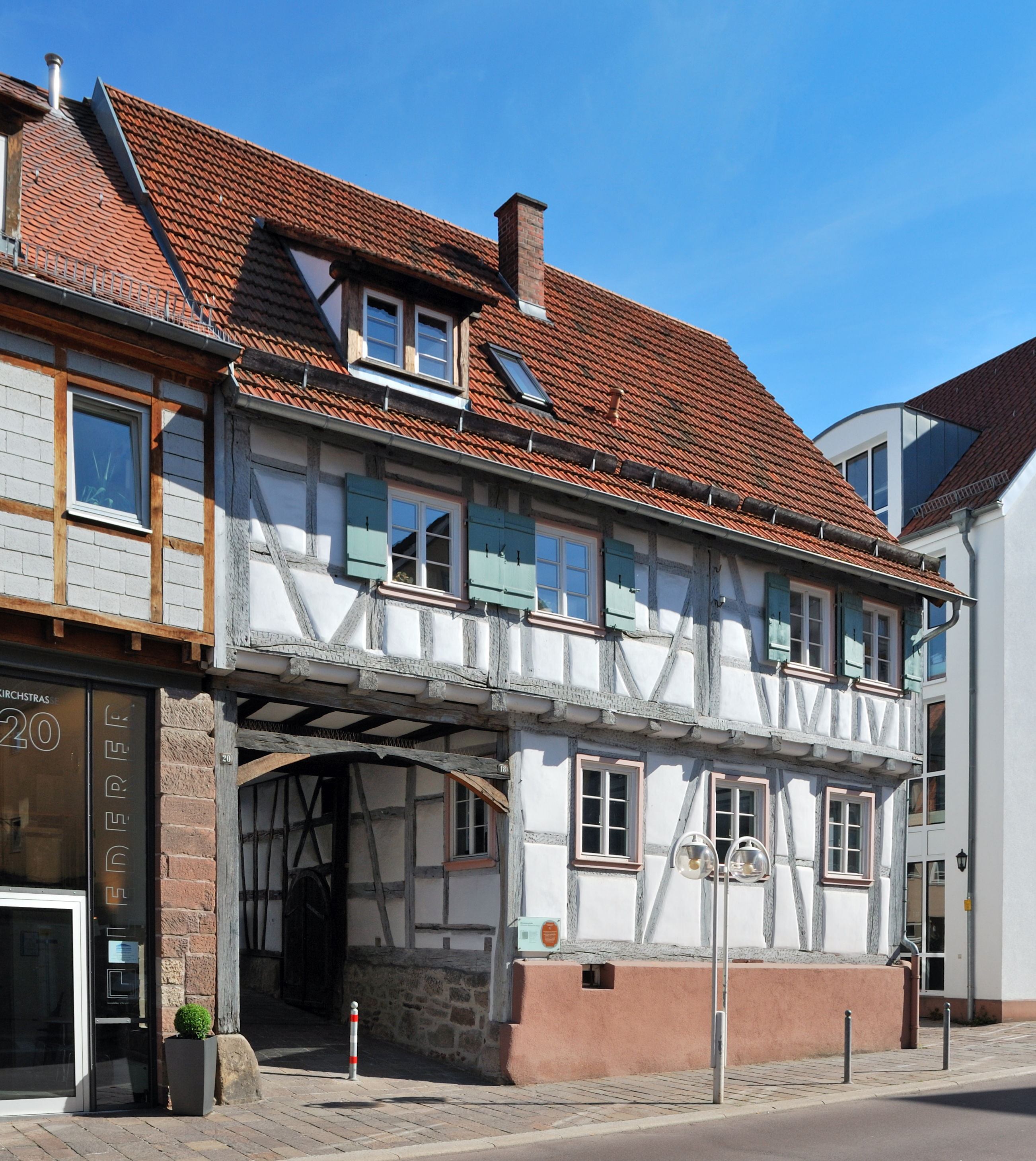 The house where the missionary Johannes Rebmann was born, in Kirchstrasse 18 in Gerlingen in Southern Germany. The 400 years old timber-framed house was renovated 2004 because of the initiative of a citizens' action group. Today it has the Missionarsstube (Missionarie's room), a memorial room for Gerlingen's missionaries. More information here.